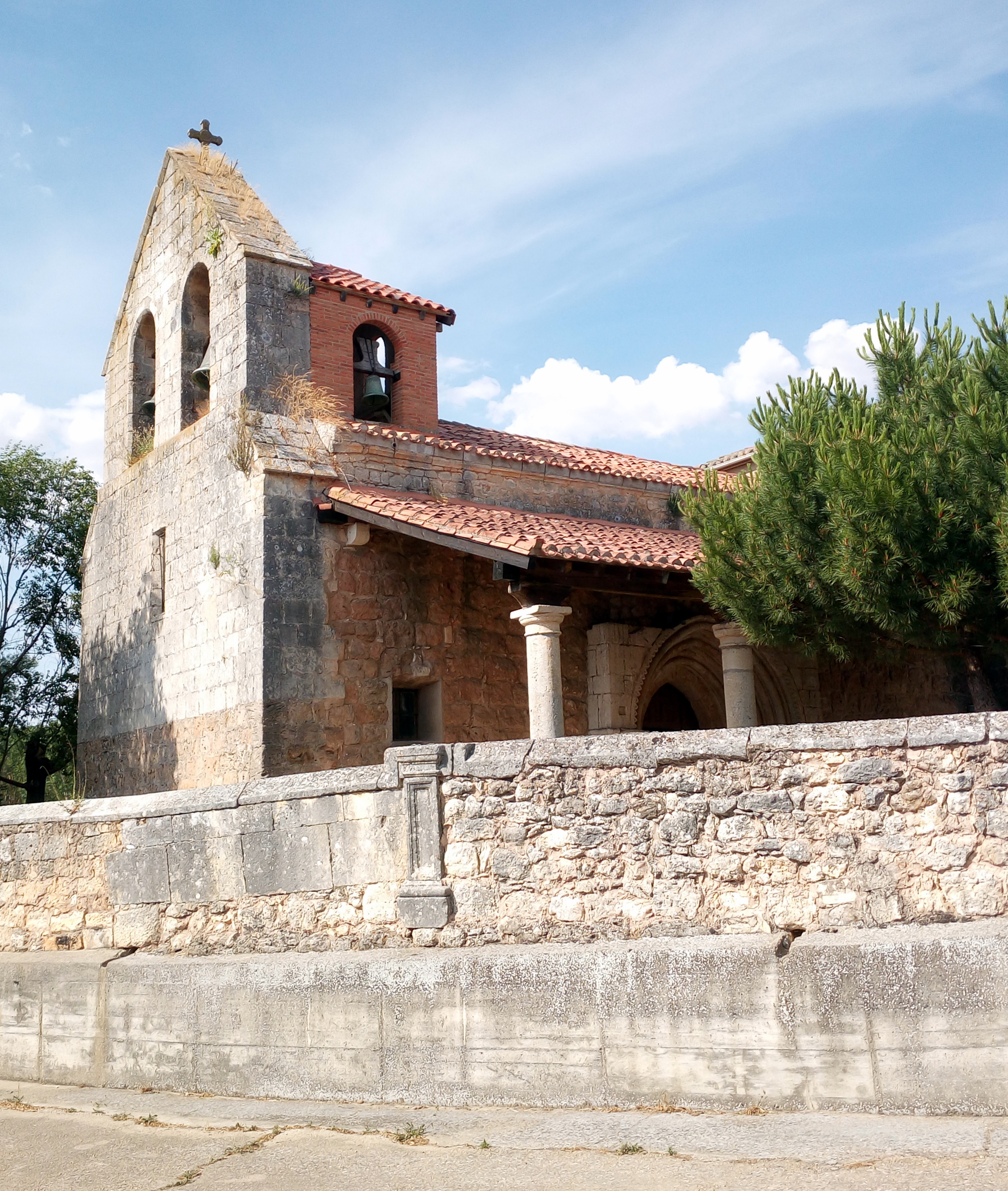 Church of St. Thomas in Madrigalejo del Monte, Burgos, Spain.